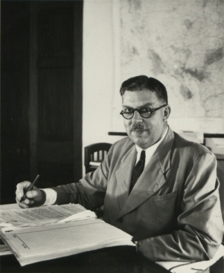 Description: Sir Edward Twining, Governor Location: Tanganyika Our Catalogue Reference: Part of CO 1069/3 This image is part of the Colonial Office photographic collection held at The National Archives, uploaded as part of the Africa Through a Lens project. Feel free to share it within the spirit of the Commons. Our records about many of these images are limited. If you have more information about the people, places or events shown in an image, please use the comments section below. We have attempted to provide place information for the images automatically but our software may not have found the correct location. Alternatively you could use the Suggestify tool to suggest the location of a picture. For high quality reproductions of any item from our collection please contact our image library